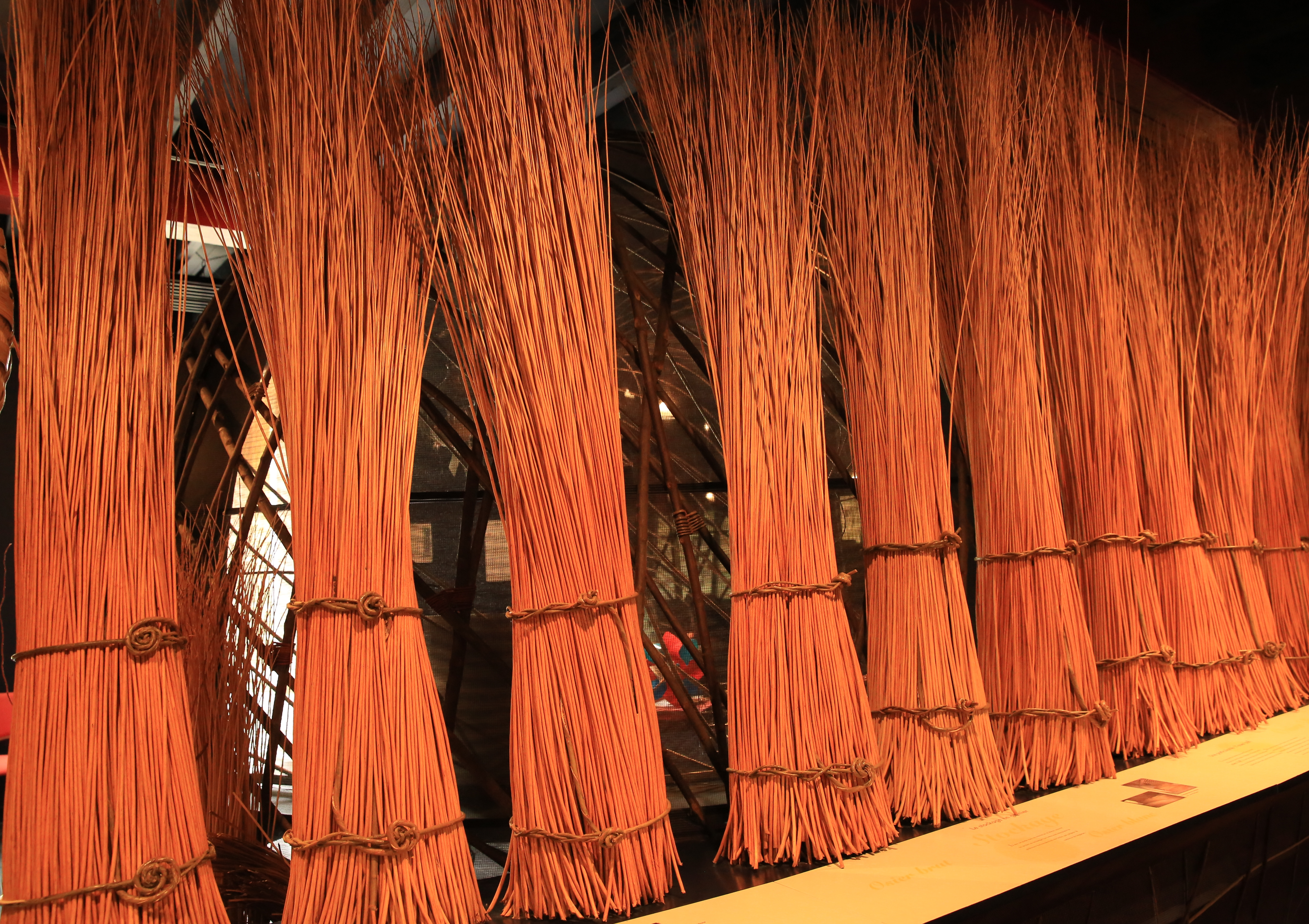 Bunches of osier stems, in the basketry museum of Villaines-les-Rochers.